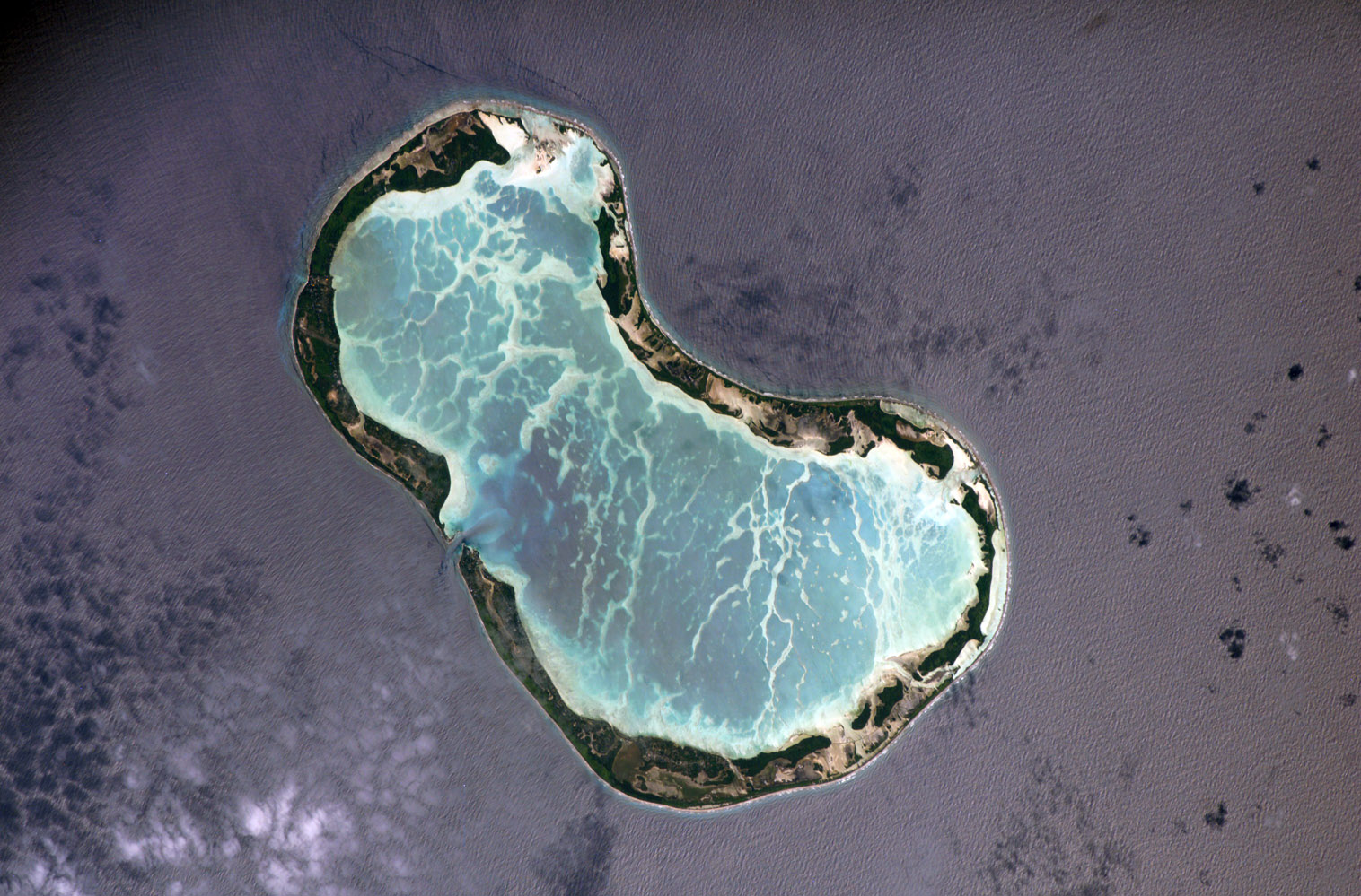 NASA astronaut image of Tabuaeran (former Fanning Island, Kiribati) in the Pacific Ocean